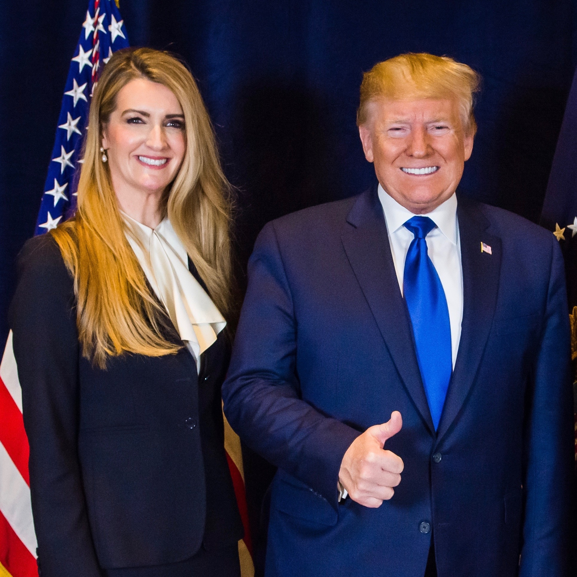 Nobody is working harder for the American people than @realDonaldTrump. Proud to help advance his conservative agenda that will grow jobs, strengthen rural communities, & protect life. Under his leadership, we are building a safer, stronger, & more prosperous America! #gapol